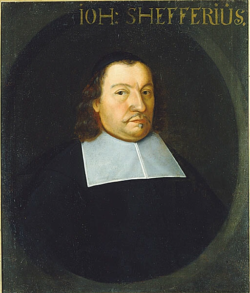 Portrait of Johannes Schefferus (1621-1679), Swedish humanist.